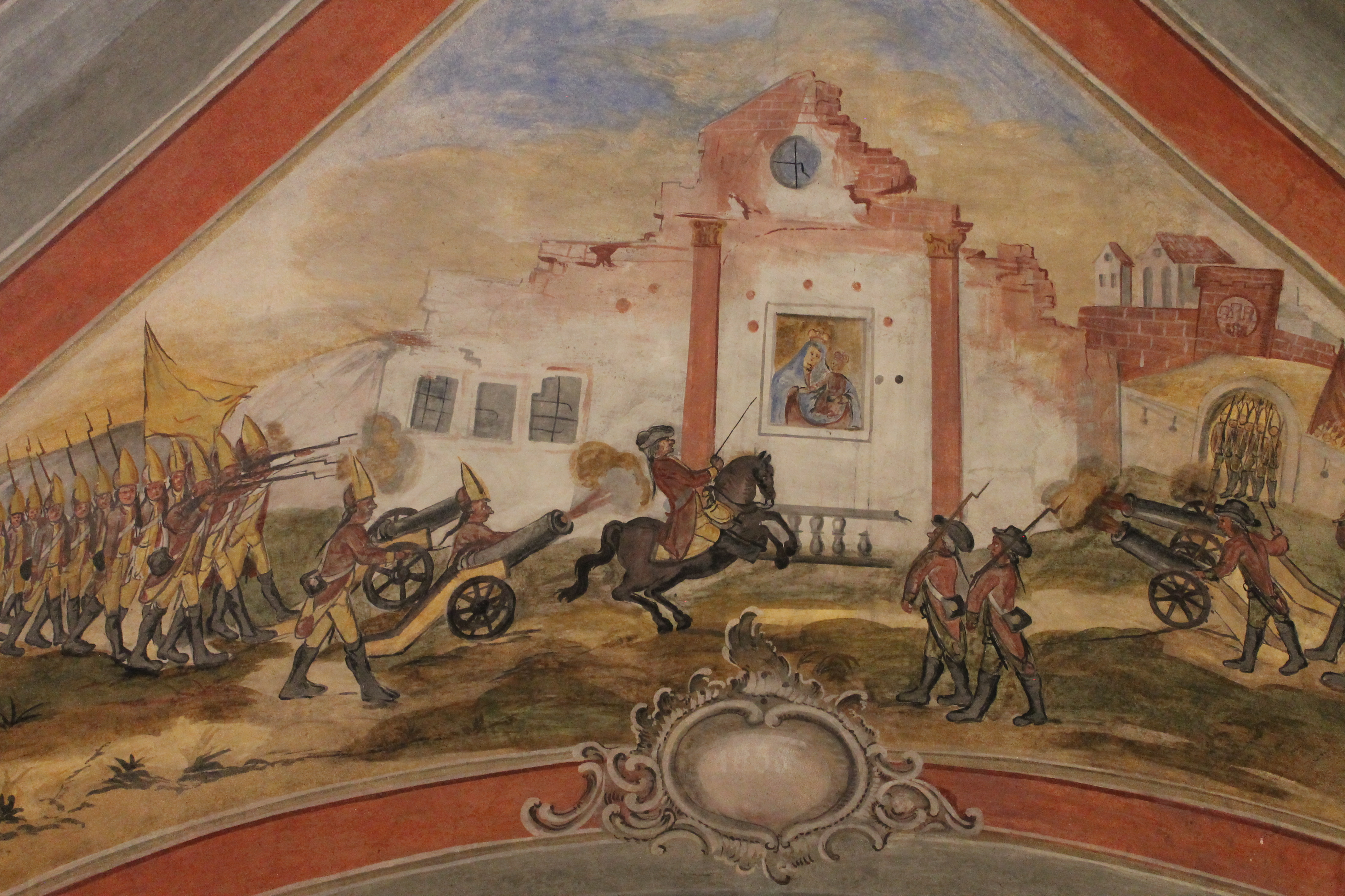 Carmelites, Karmelicka 19 Cracow